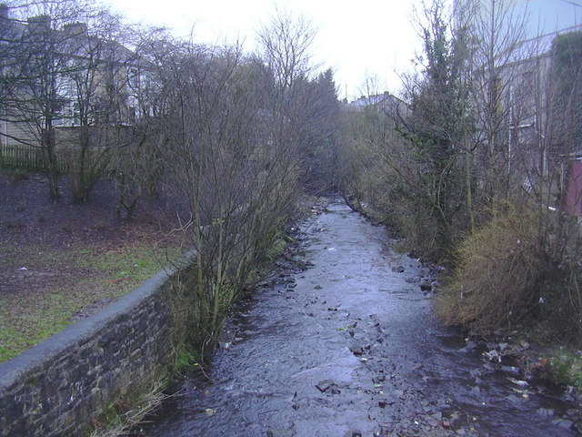 River Hyndburn at Church Bridge Looking downstream